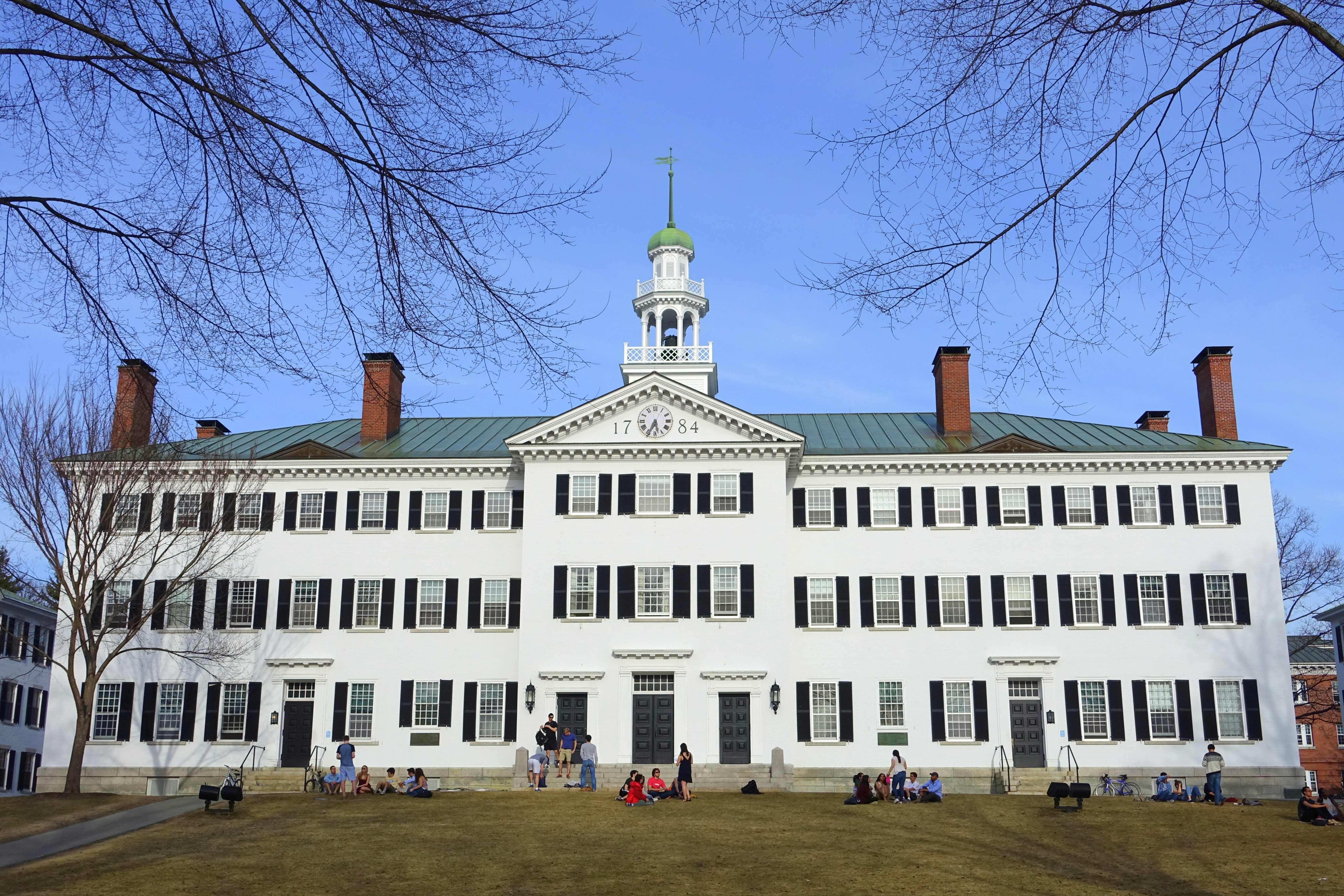 Dartmouth Hall - Dartmouth College, Hanover, New Hampshire, USA.